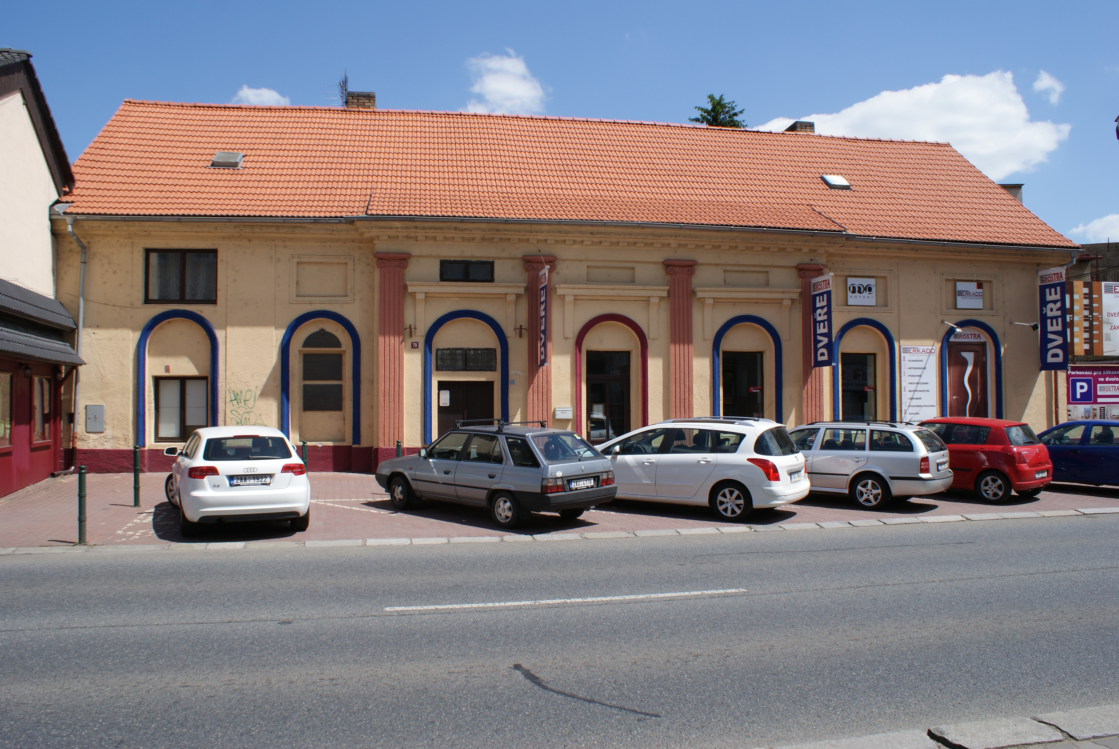 Former synagogues in Prague Uhříněves, Czech Republic.